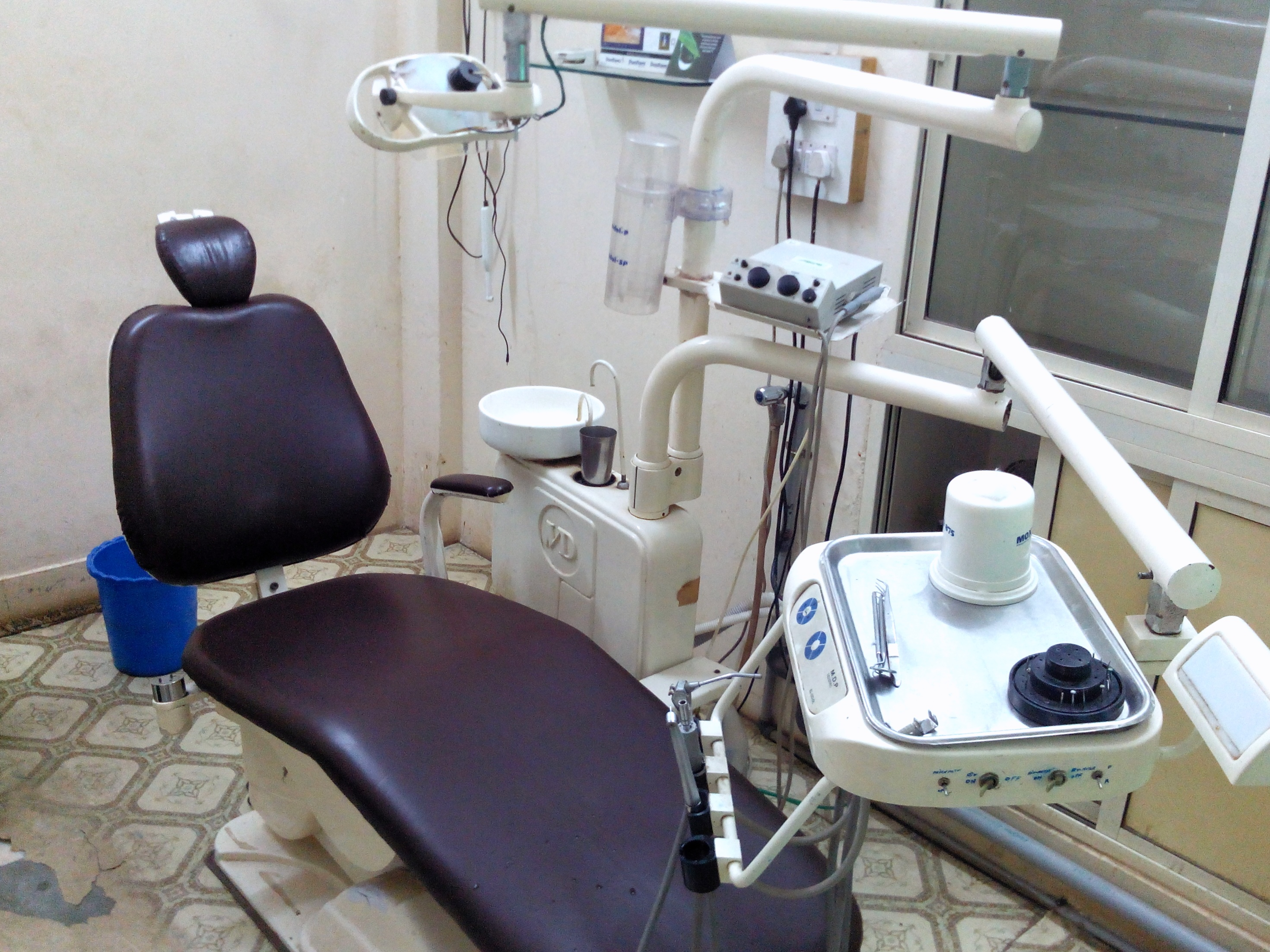 Special chair with engine used in dentistry.